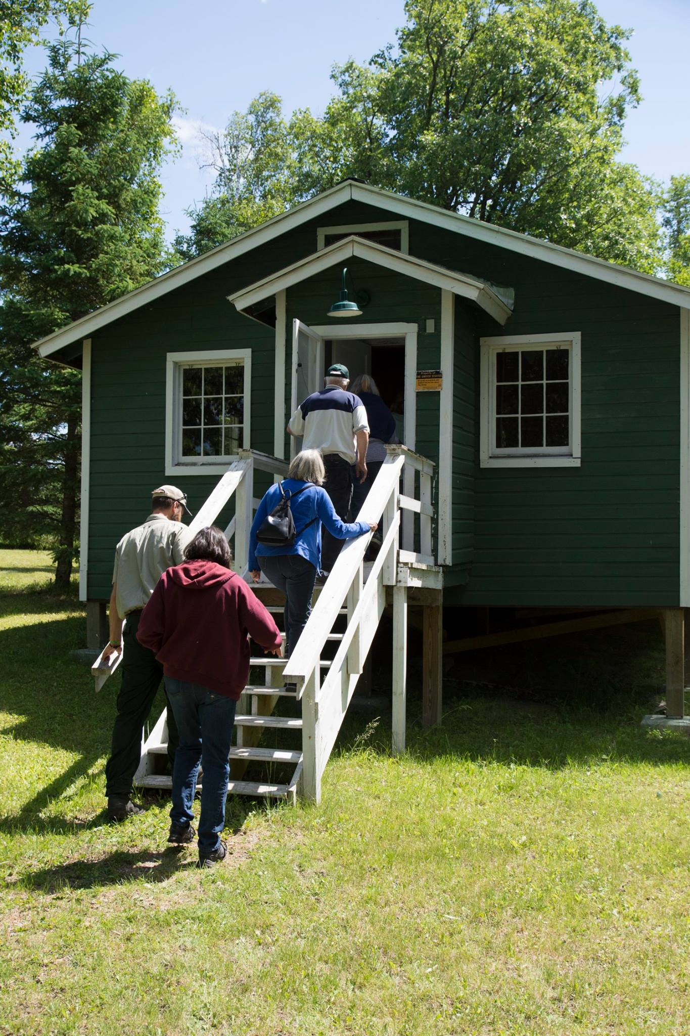 Tour the historic Camp Rabideau ... This National Historic Landmark represents the best preserved of the Civilian Conservation Corps camps in the nation. Part of Franklin D. Roosevelt's mammoth "New Deal," Camp Rabideau was one of the 2,650 camps established across the country in 1935. The Civilian Conservation Corps gave more than a quarter of a million young men, many of them unemployed and just scraping by during the Great Depression, some skills, some money, and some happy memories. Camps were run jointly by the U.S. Forest Service, which manage the camps today, and the U.S. Army, which commanded the camps. Enjoy a self-guided walk through the camp or a host provided tours. Interpretive displays highlight the buildings and history of the area and hosts are available to give tours. A picnic shelter is available and hiking trail winds through the camp area.